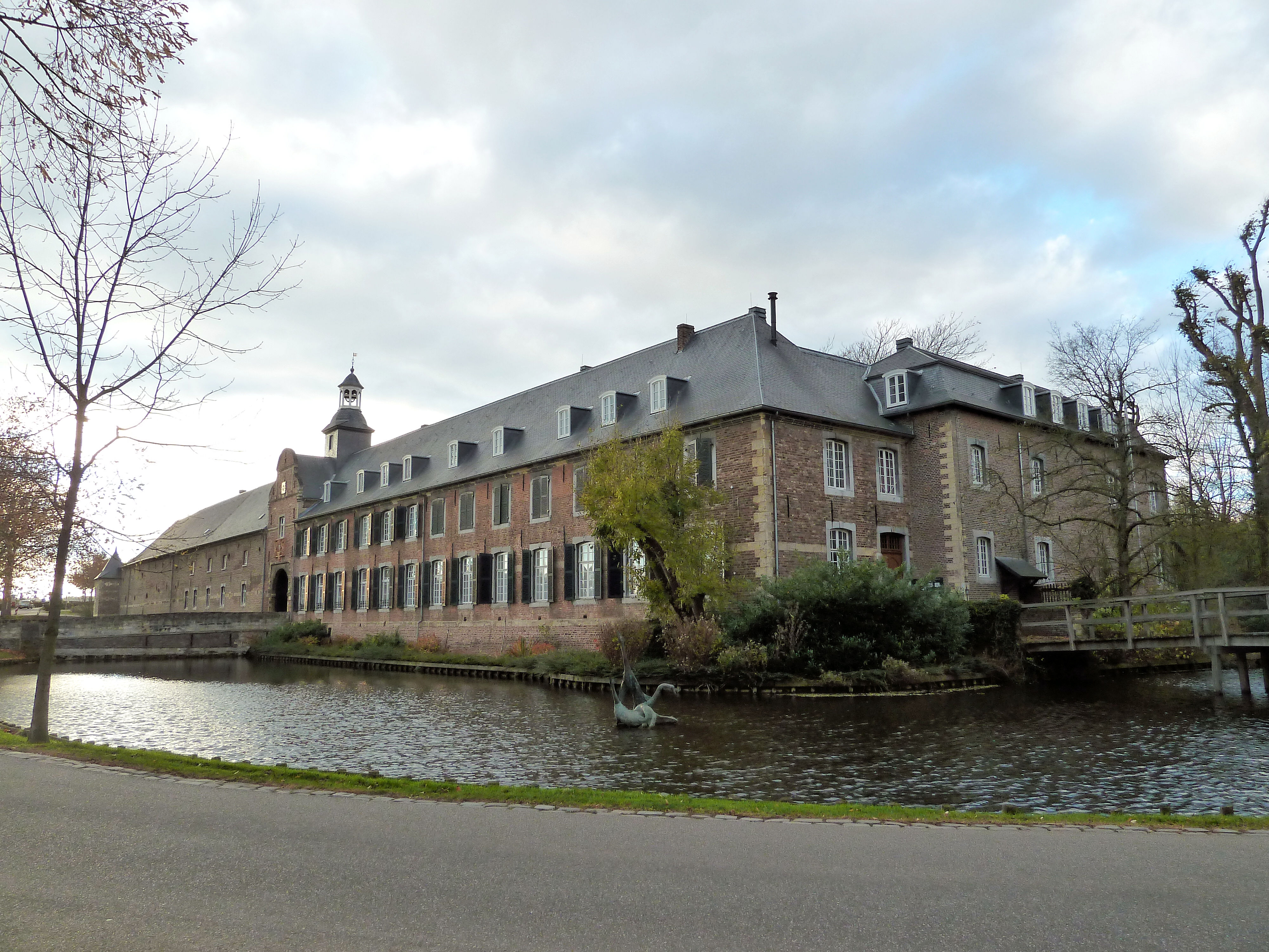 Castle Wijnandsrade, Wijnandsrade, Limburg, the Netherlands